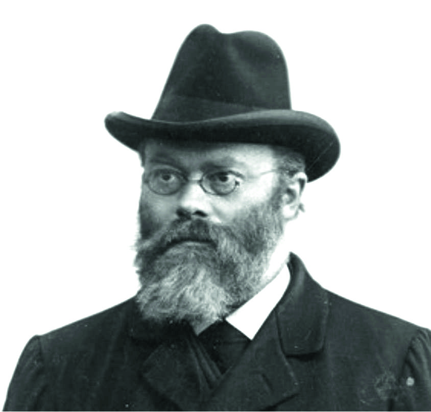 Wilhelm Scheiner